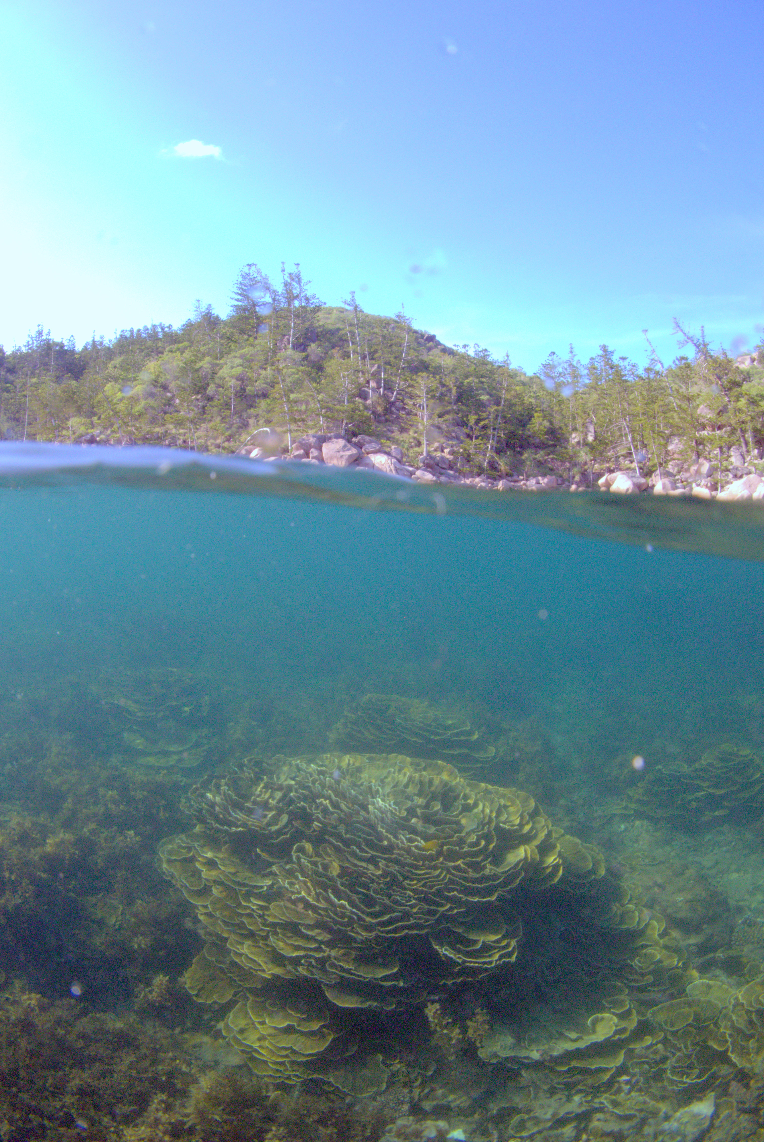 Under over image of coral at Arthur Bay, Magnetic Island